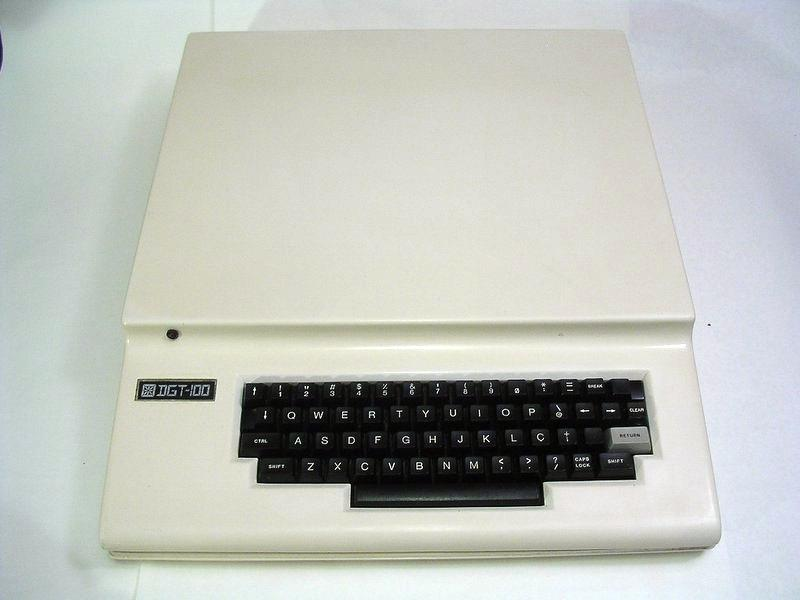 The DGT-100, a Brazilian TRS-80 clone